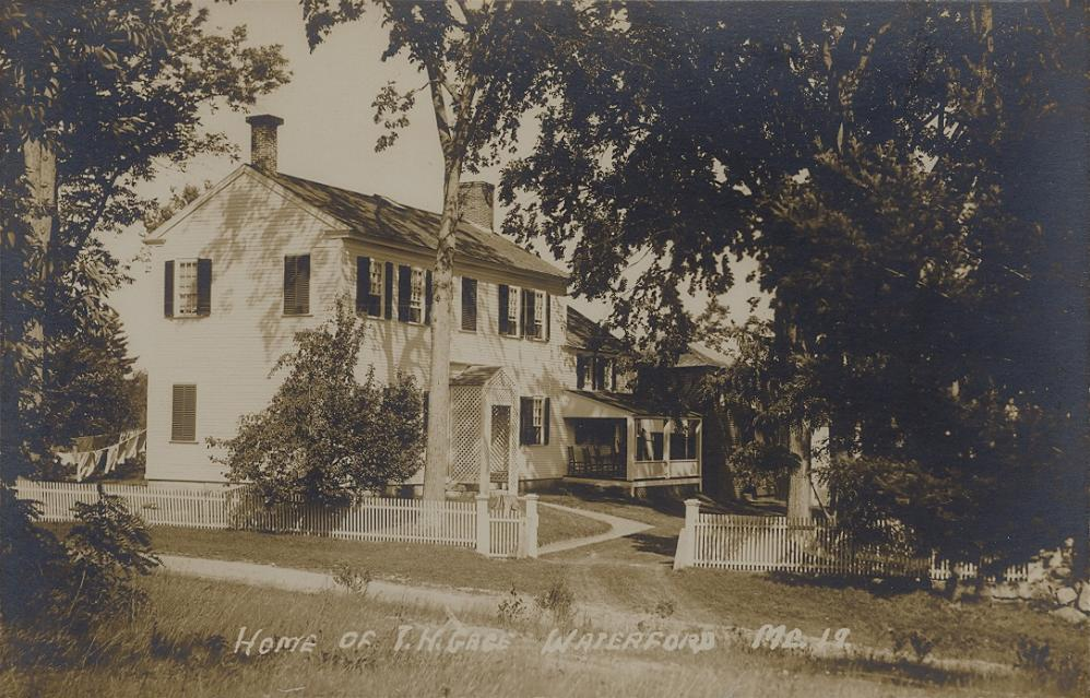 Home of Thomas Hovey Gage, Waterford, Maine. He was author of Notes on the History of Waterford, Maine, published 1913.